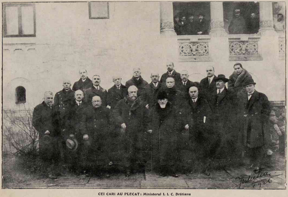 The Romanian Government led by Ion I. C. Brătianu, when it left the governance.